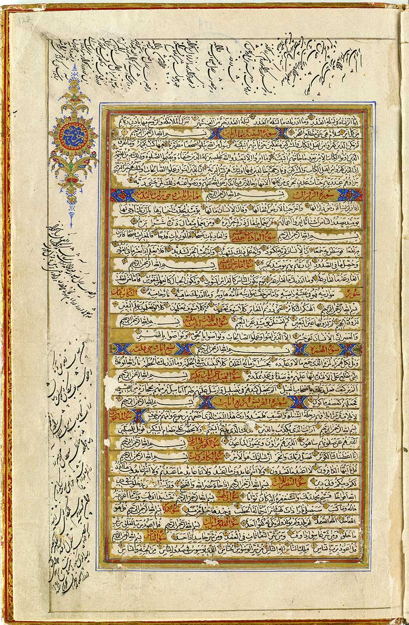 Scan of a Qur'an from the year 1874